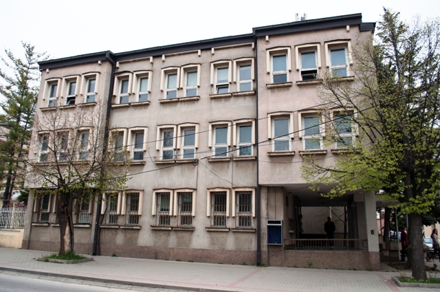 The building of the archives of Bitola, a department of the State Archive of the Republic of Macedonia. This media file is produced by Wikipedian in Residence in Category:Wikipedian in Residence at DARM in 2016.